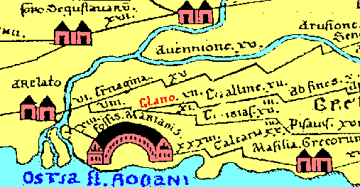 A part of the Peutinger Table, showing Southern France and the location of the Roman city of Glanum in red. Scan of a photocopy, processed and re-coloured by User:Cwoyte (Colours are nowhere near authentic, and have only been added for clarity's sake). Apart from Glanum, the following cities are shown: Avennione (Avennio: Avignon), Arelato (Arelatum: Arles), Foſſis Marianis (Fossae Marianae: Fos-sur-Mer), and Maſilia Gr[a]ecorum (Massilia: Marseille). The two rivers shown are River Rhône (flowing North to South, the blue legend ostia fl[uvii] R[h]odani meaning "mouths of the River Rhône") and Durance (East-West). The names of all locations are given in the ablative case because they denote the distance from a given city; a kink in the road line indicates the actual location.